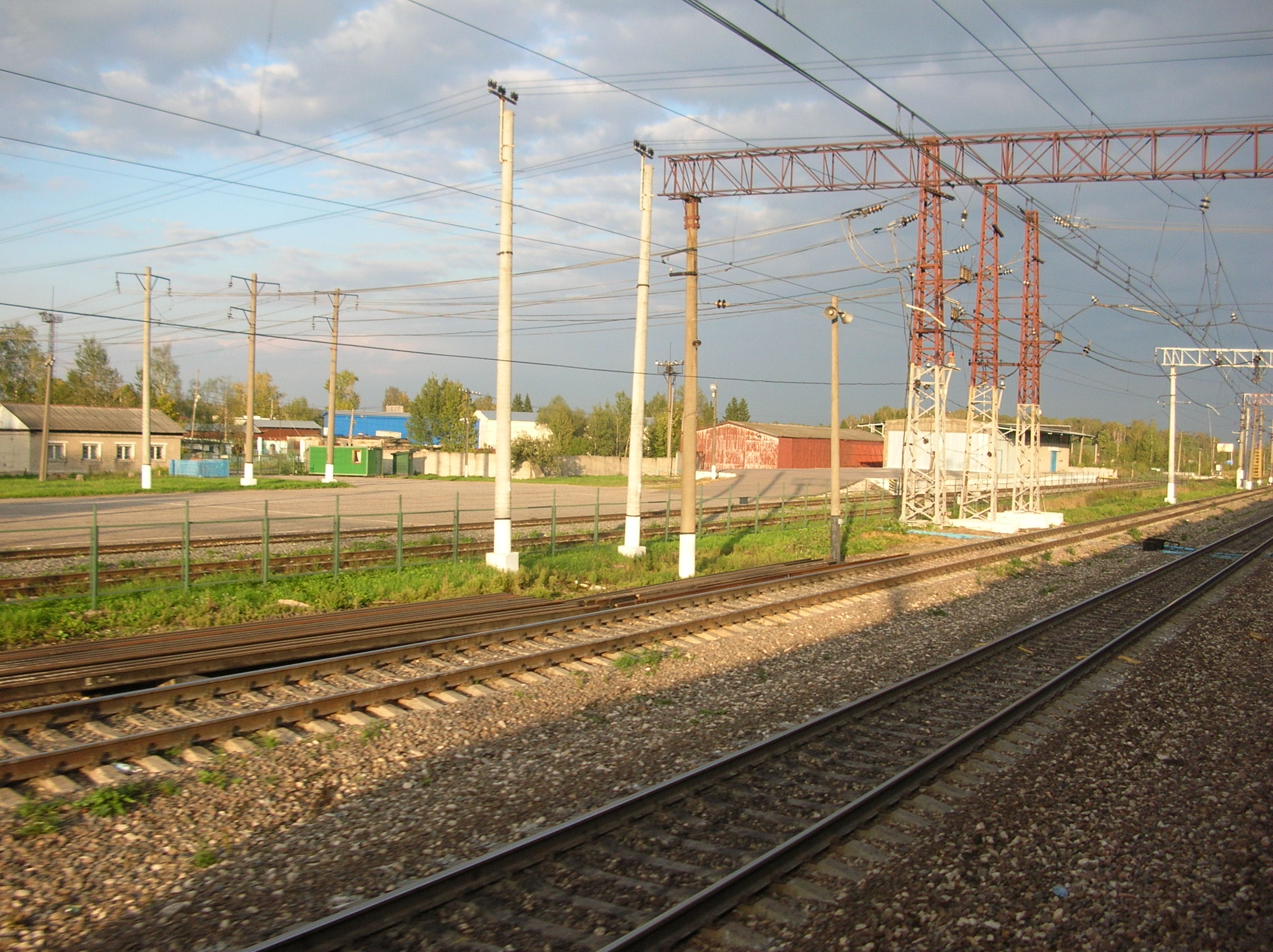 Railway station Kresty of Moscow Big Ring Railway, Troitsk District, Moscow, Russia.